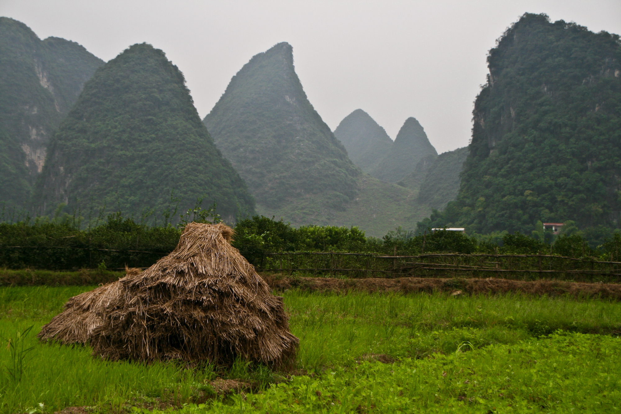 Stook in front of karst peaks, Guangxi, China.